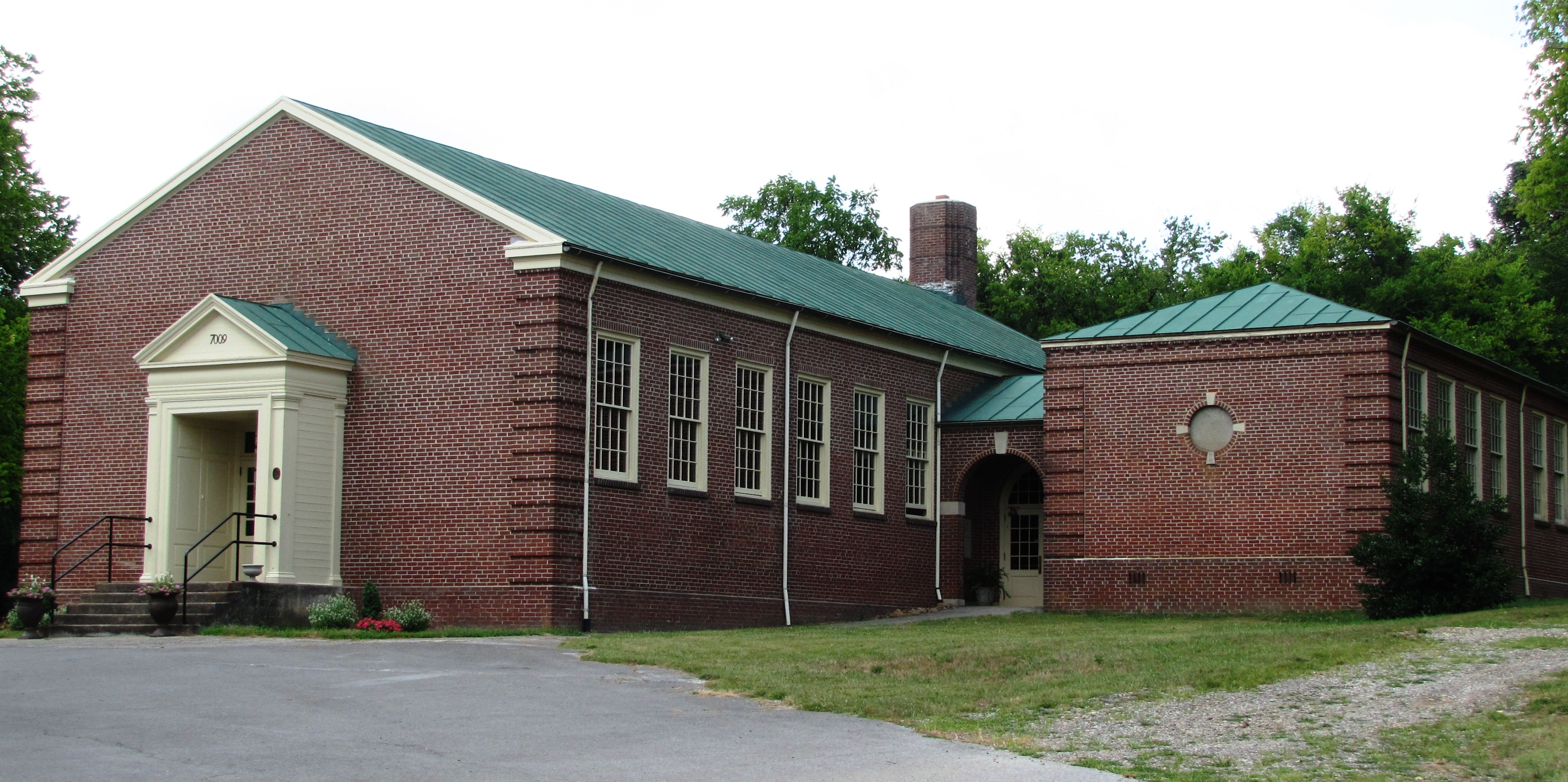 The Riverdale School building in the Riverdale community of eastern Knox County, Tennessee, USA. Designed by Barber & McMurry and built in 1938, the school is now being restored, and has been listed on the National Register of Historic Places.